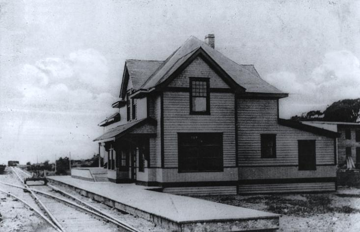 Photograph, C. N. R. station, Neuville, QC, about 1910, Anonymous, Silver salts on paper mounted on card - Collotype - 8 x 13 cm